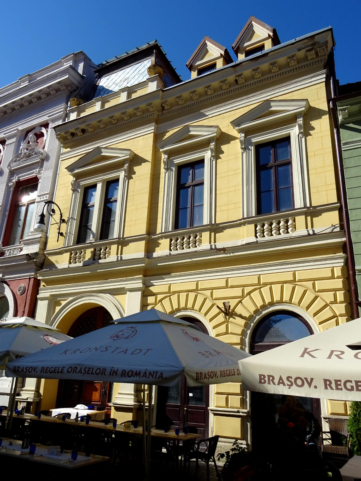 Apollonia Hirscher street, Brasov; house number 6